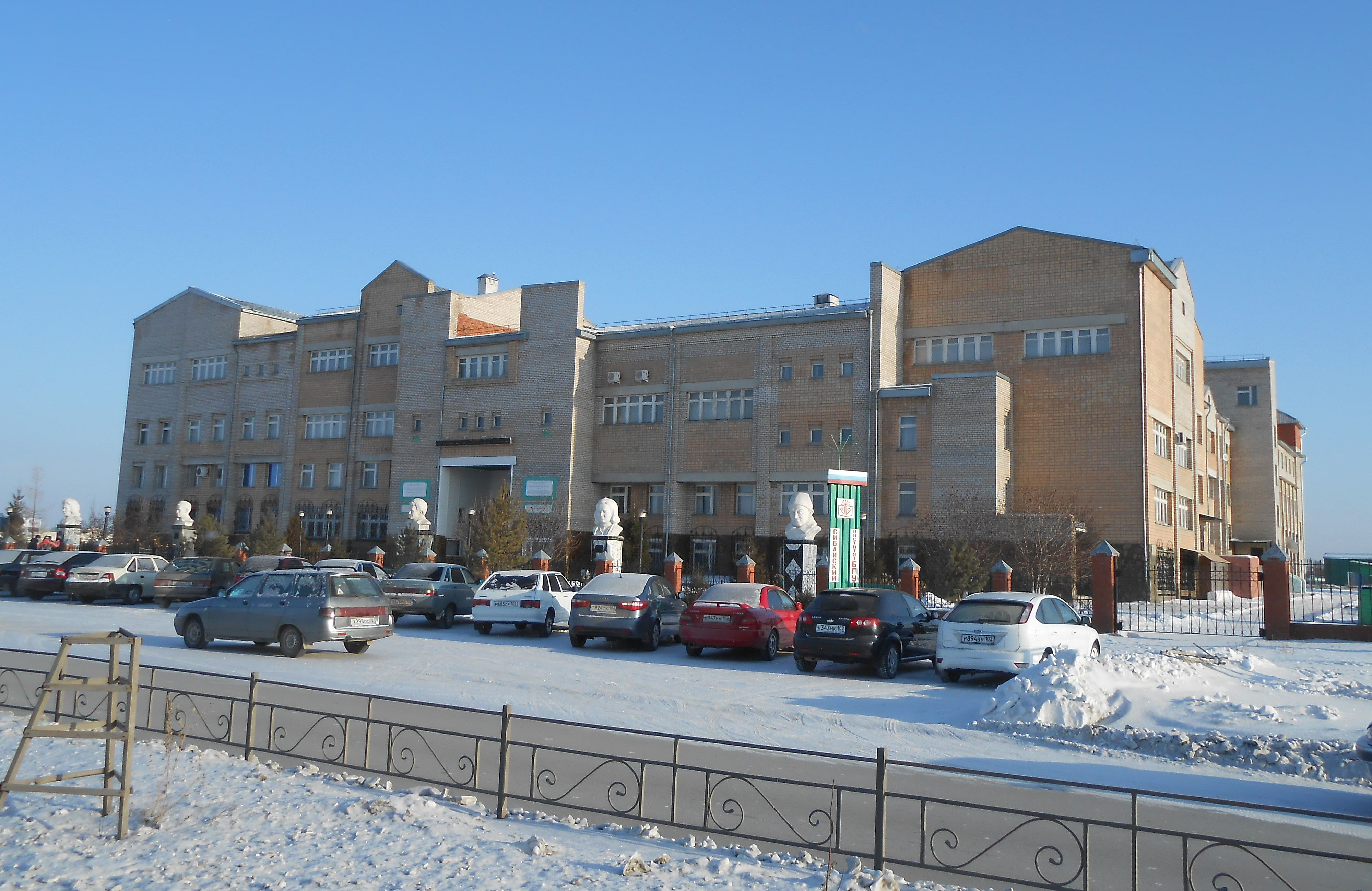 Sibay 2013